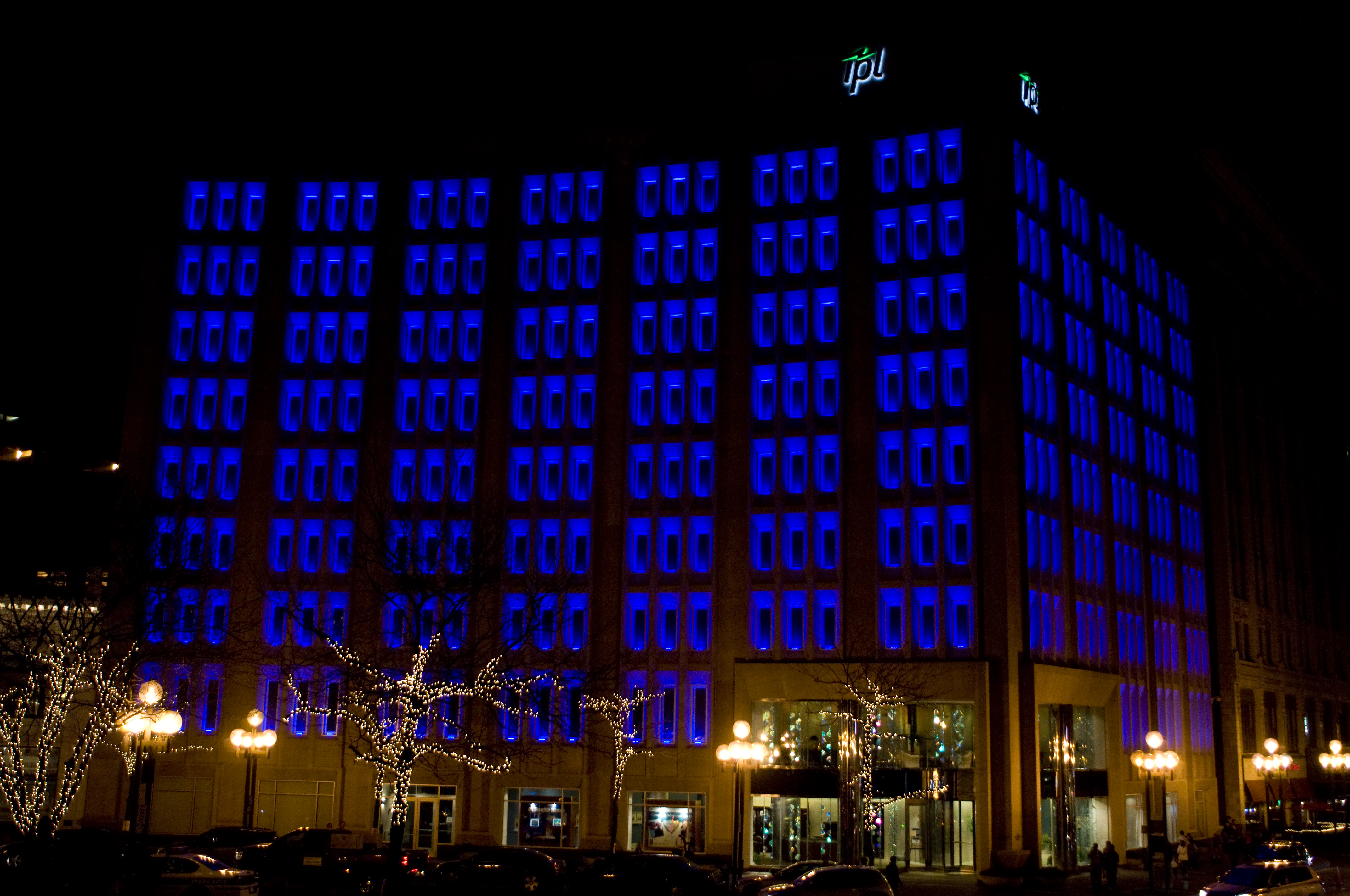 Downtown IPL Indianapolis Power Light building